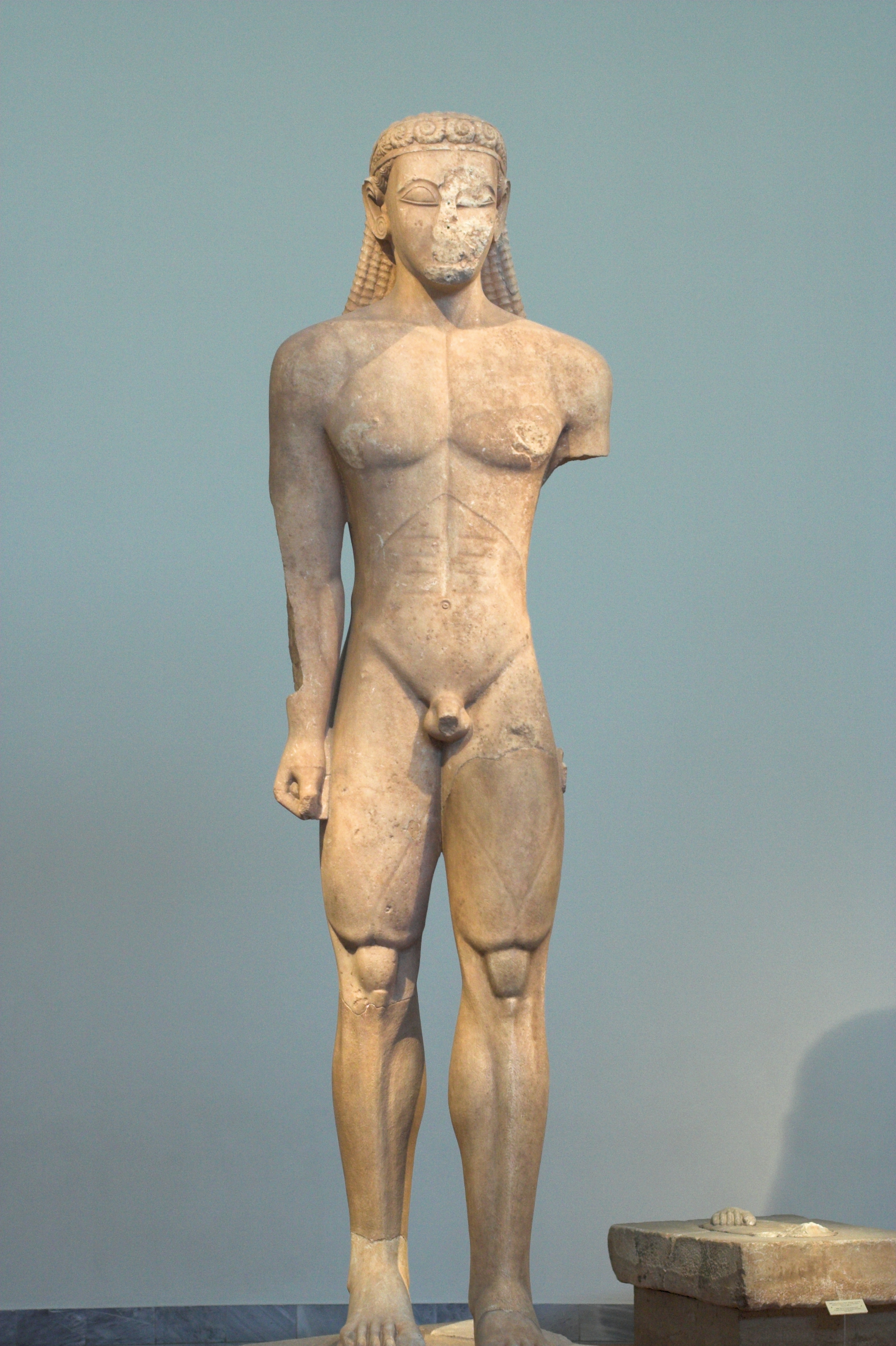 Kuros from the Temple of Poseidon at Cape Sounion, circa 600 BC. Naxian marble. High 3,05 m. National Archaeological Museum of Athens, NAMA 2720th